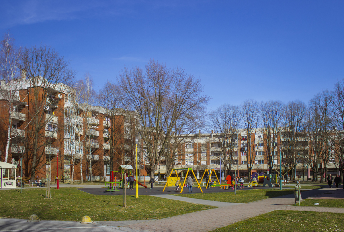 Belišće 2